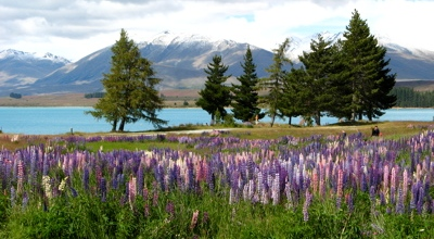 Taken from roadside by Greg Edwards & Judith Radin at Lake Tekapo, NZ South Island, 1st Jan 2007, on holiday.